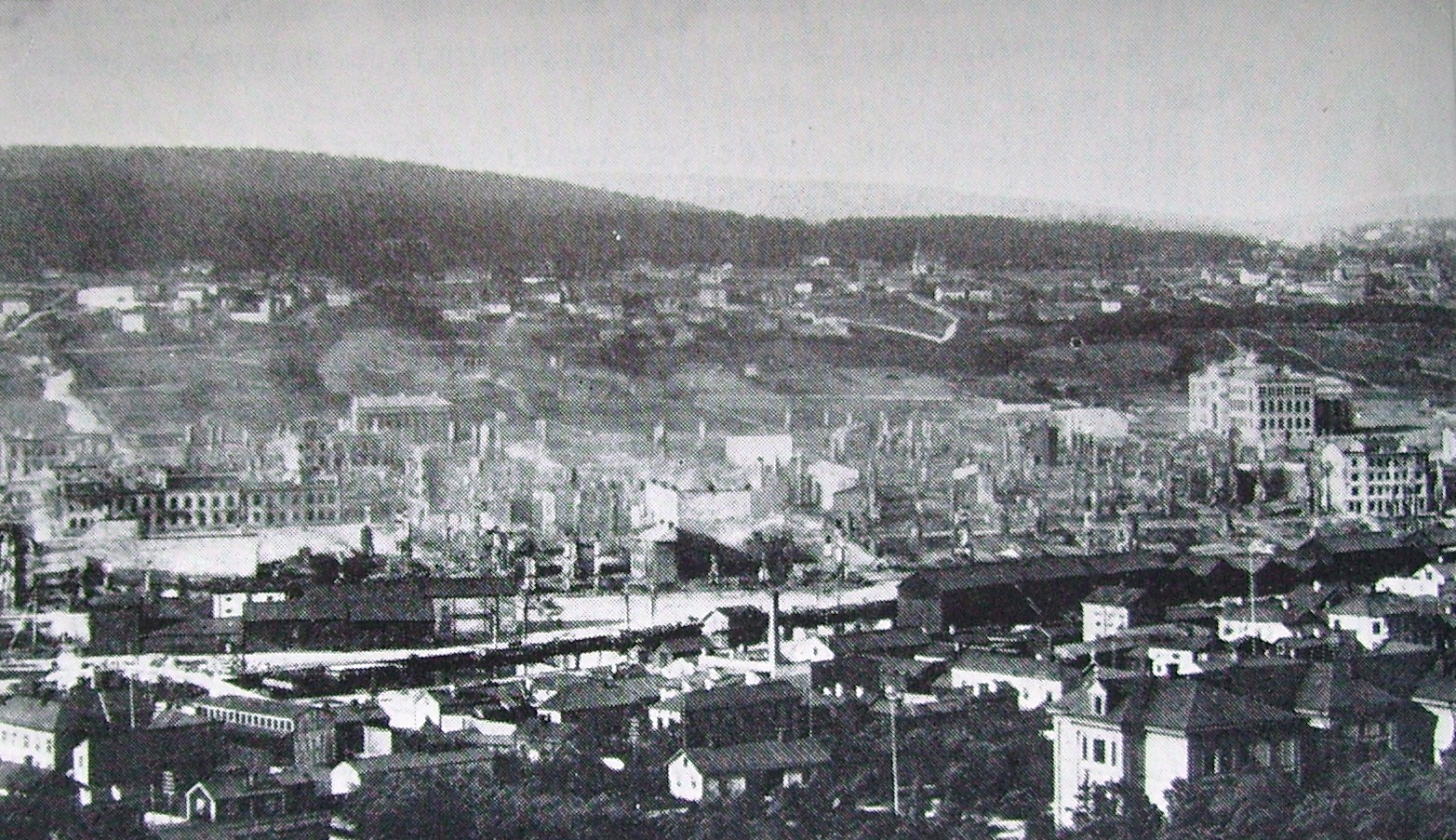 Picture of Sundsvall after city fire June 22 1888, three days later.